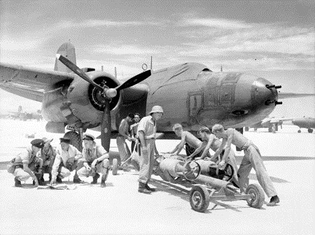 AWM Caption: NOEMFOOR ISLAND, DUTCH NEW GUINEA. 1944-10-29. WHILE GROUND STAFF OF NO. 22 (BOSTON) SQUADRON RAAF TRUNDLE OUT TWO 250 LB BOMBS ON LOW TRAILERS FOR THE BOMB RACK OF THE BOSTON AIRCRAFT, PILOTS WHO ARE TO TAKE PART IN THE SORTIE CHECK UP WITH THEIR NAVIGATORS FROM A MAP SPREAD ON THE CORAL AIRSTRIP.